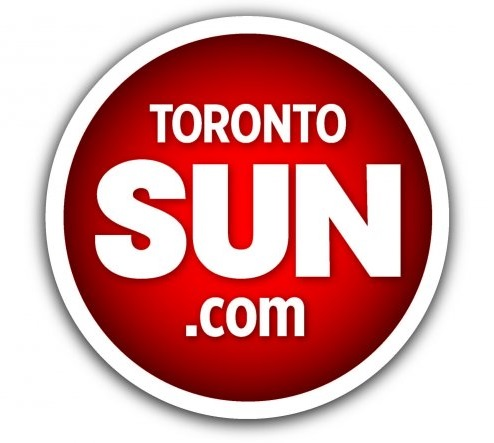 Toronto Sun logo